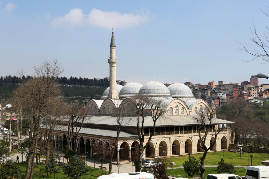 piyalepaşa camii from beyoğlu, istanbul